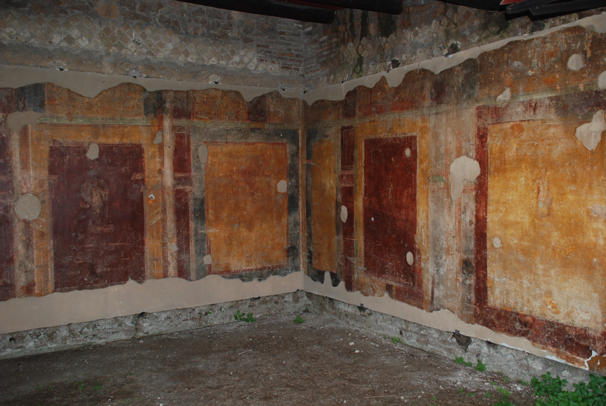 Ostia antica (archaeological site)